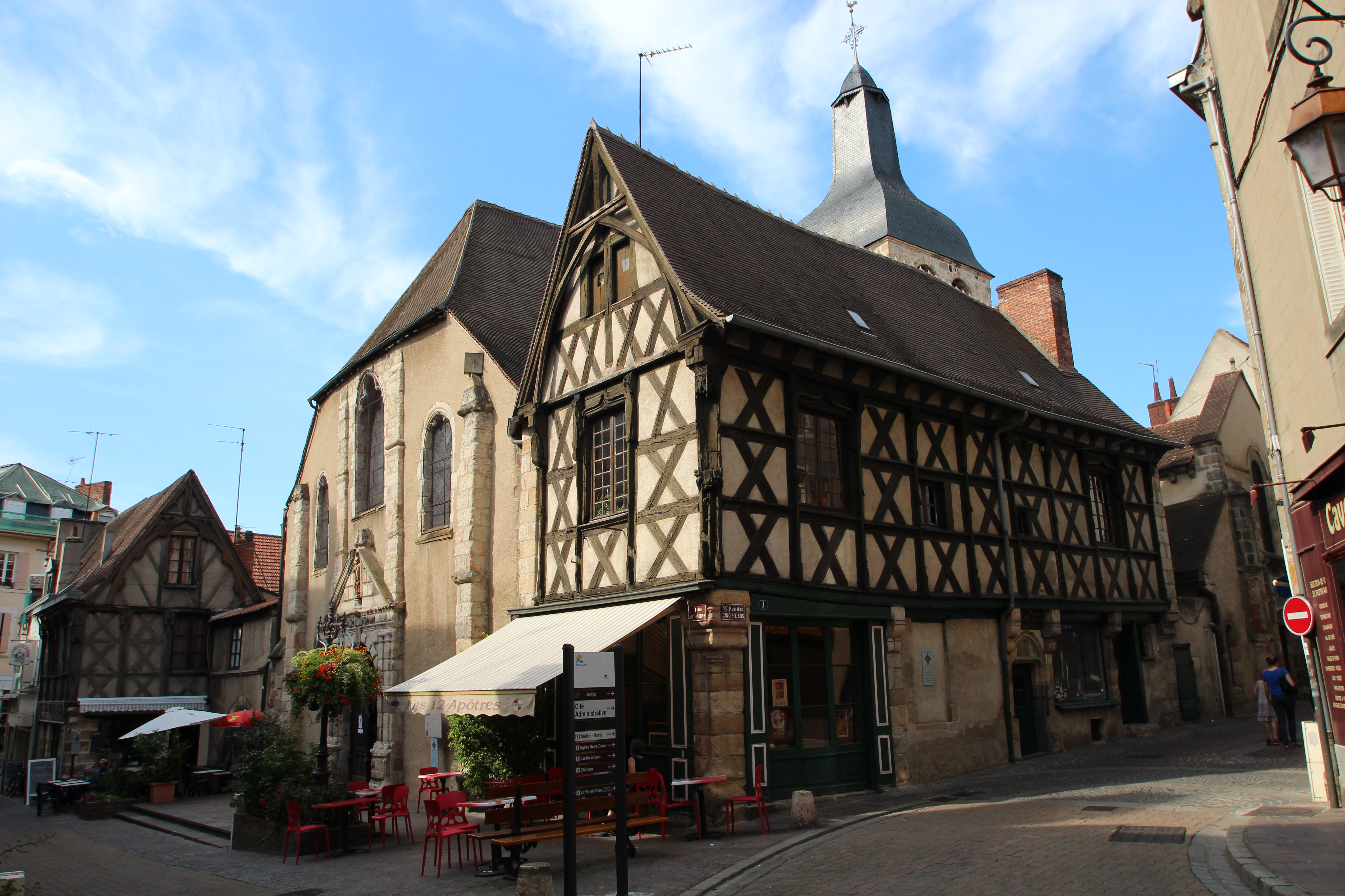 Maison des douze apôtres (House of the Twelve Apostles) in Montluçon, France. . Object location46° 20′ 27.76″ N, 2° 36′ 11.29″ E